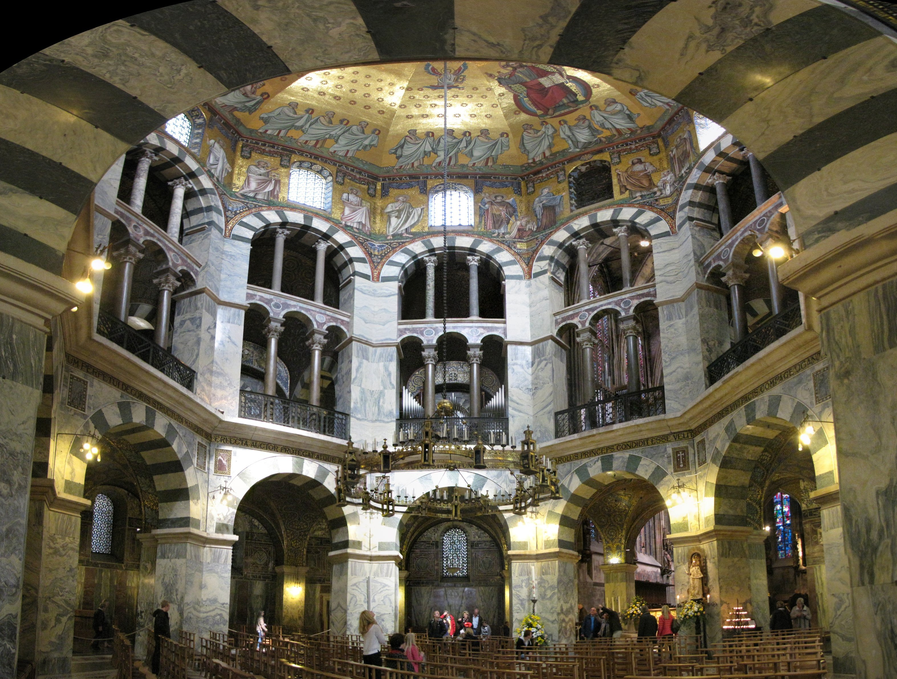 Aachen Cathedral Carolingian Octagon (Palatine chapel)